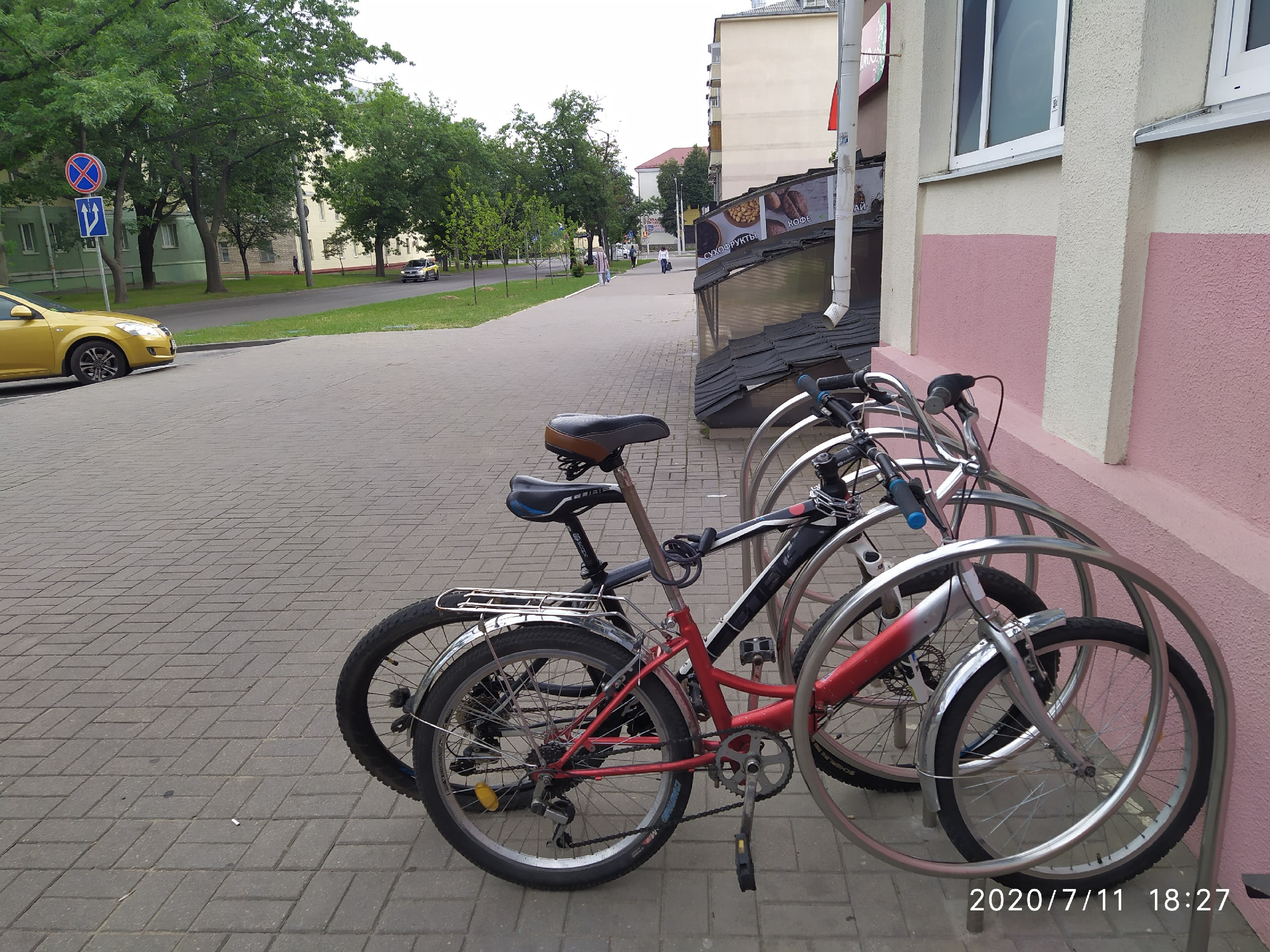 Nothing special.